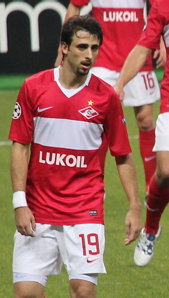 Nicolás Pareja